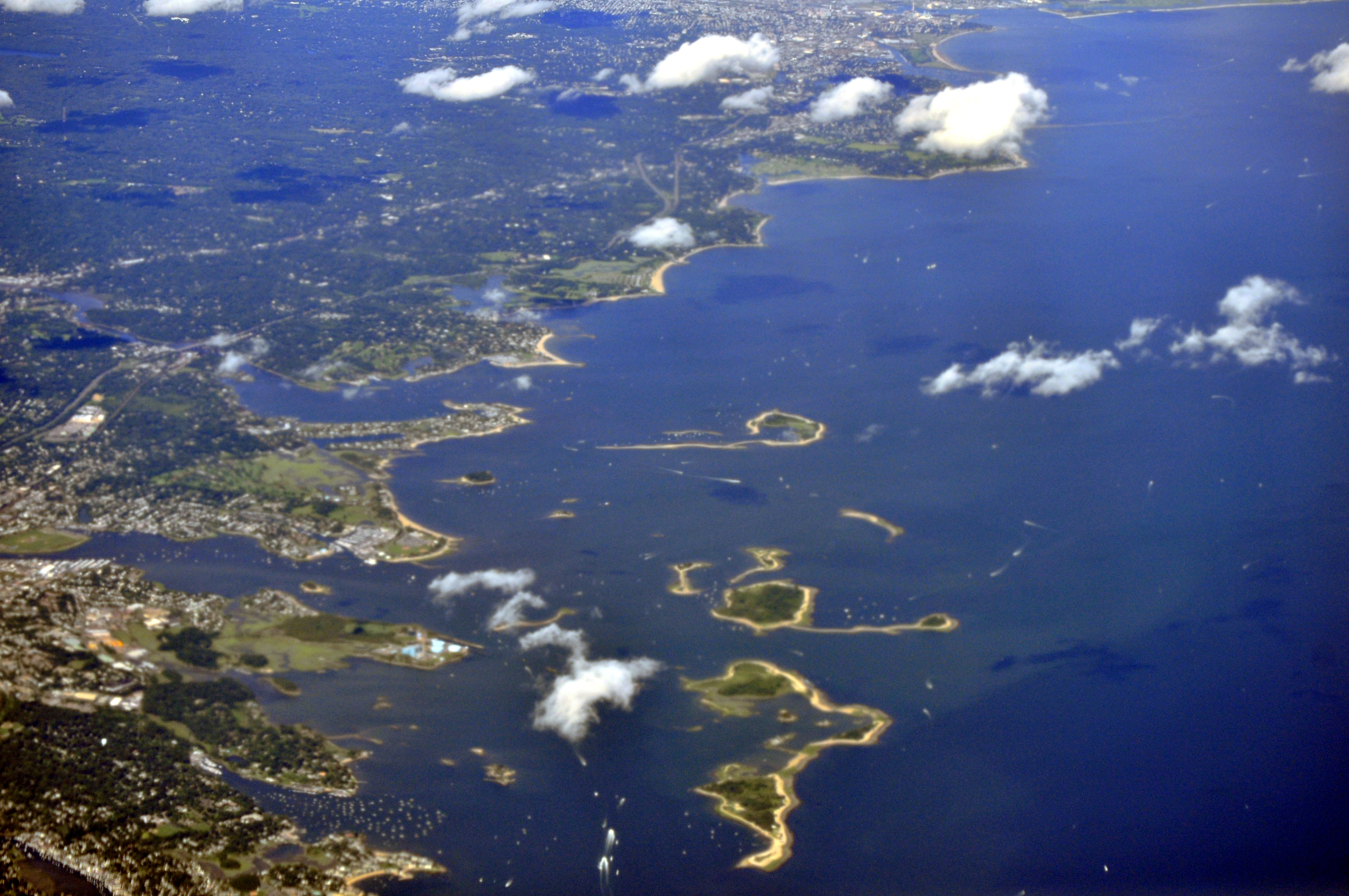 Aerial view of Connecticut coast.